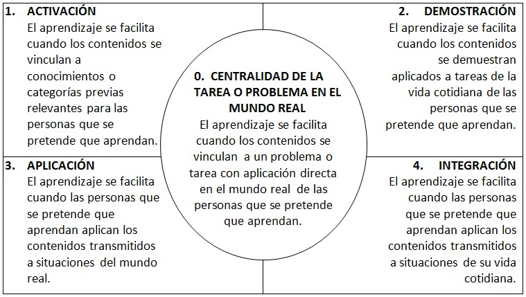 This is a visual Spanish version of de First Principles of Instruction Theory by M. David Merrill